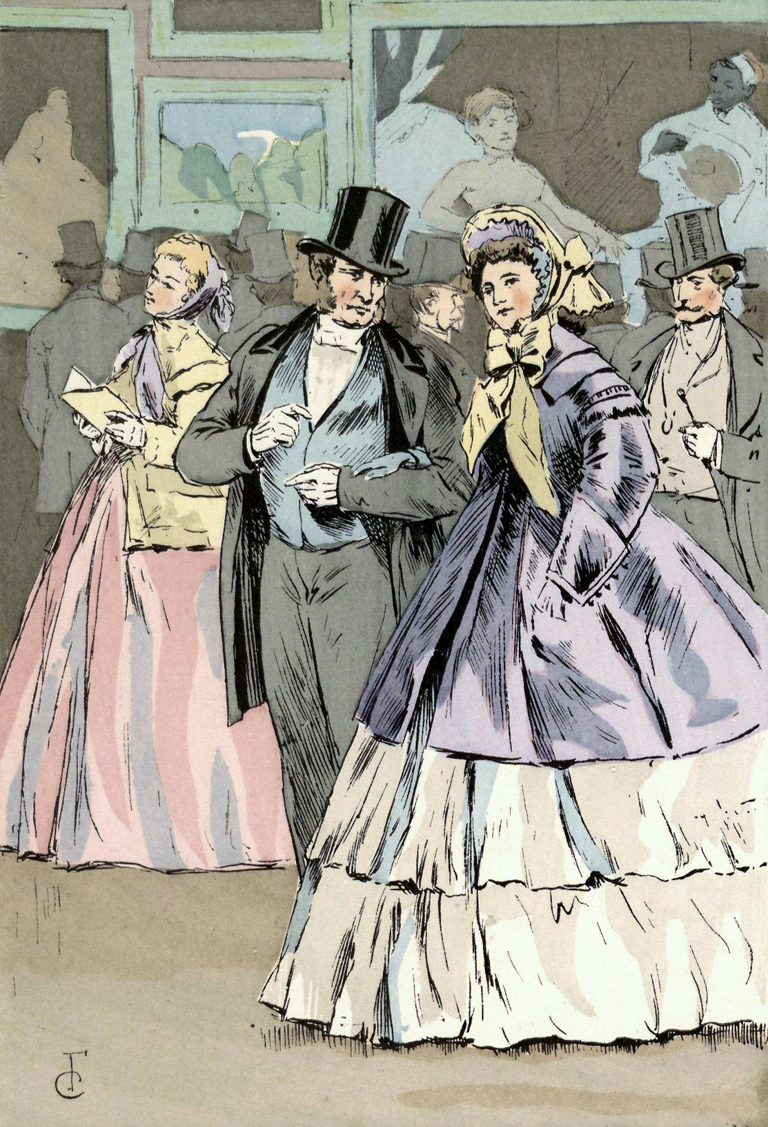 This plate depicts a scene at the Salon of 1865. Manet's painting 'Olympia'is represented in the background on the right of the plate. The man in the foreground is wearing a black suit with a starched collar and a blue vest, as well as a top hat. The woman in the foreground wears a wide, flounced dress with a wide crinoline that extends behind her. She is also wearing a violet fitted coat and a yellow bonnet tied under the chin with a ribbon. Abstract sources: Boucher, François. 20,000 Years of Fashion. New York: Harry N. Abrams, Inc, 1967. Ruppert, Jacques. Le Costume Français. Paris: Flammarion, 1996.